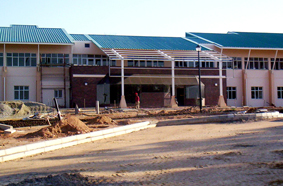 The new provincial hospital of Vredenburg, South Africa, being built.